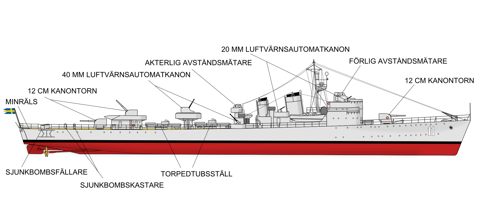 Swedish ship HMS Visby, as her weaponry appeared from 1943 to 1965.